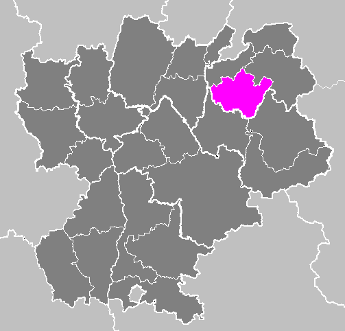 Maps of arrondissements and cantons of France: Arrondissement d Annecy.PNG (Région Rhône-Alpes)